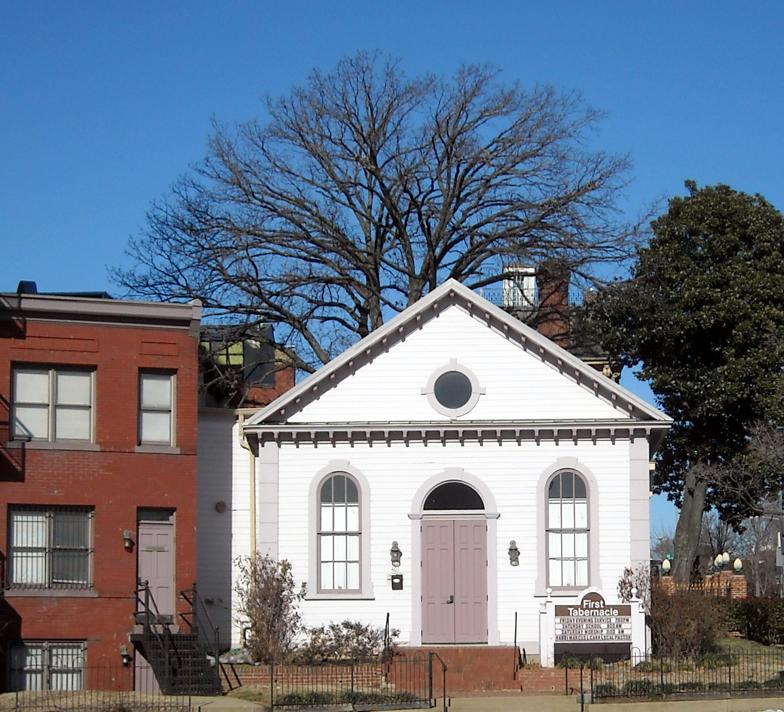 Fletcher Chapel, now known as First Tabernacle or First Tabernacle Beth El, located at 401 New York Avenue, N.W., in the Mount Vernon Square neighborhood of Washington, D.C. The building was constructed in 1854 by members of McKendree Methodist Church (the "mother church" of Fletcher Chapel), making it one of the oldest surviving houses of worship in Washington, D.C. It was one of the first buildings used by the Church of God and Saints of Christ, a Black Hebrew Israelite congregation founded by William Saunders Crowdy. They purchased Fletcher Chapel in 1903 and renamed it First Tabernacle. On August 14, 1997, the building was listed on the National Register of Historic Places (NRHP). In addition, Fletcher Chapel is designated as a contributing property to the Mount Vernon Square Historic District, a historic district listed on the NRHP on September 3, 1999.